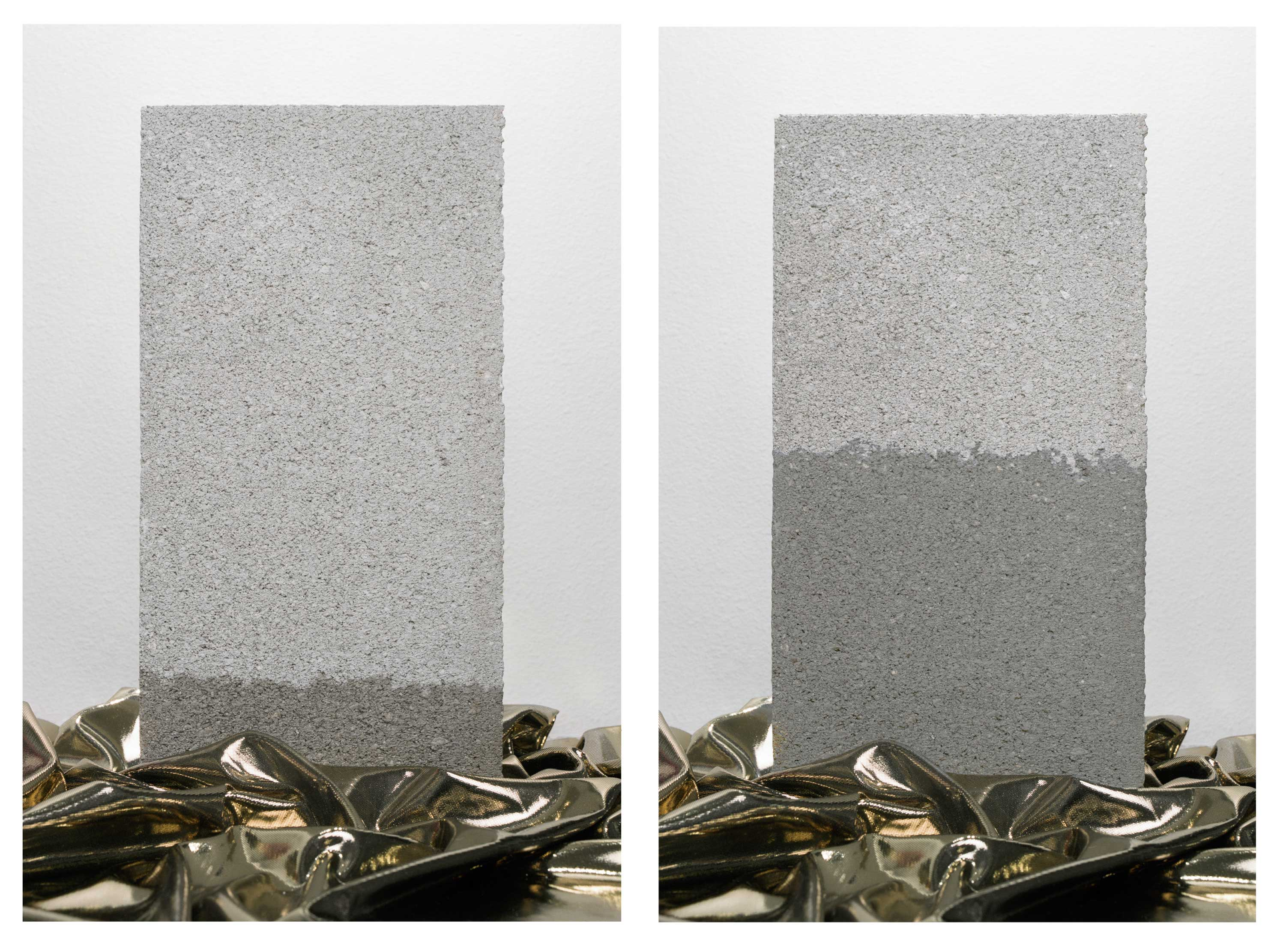 Displays the capillary action of a concrete brick sitting in a puddle of water.